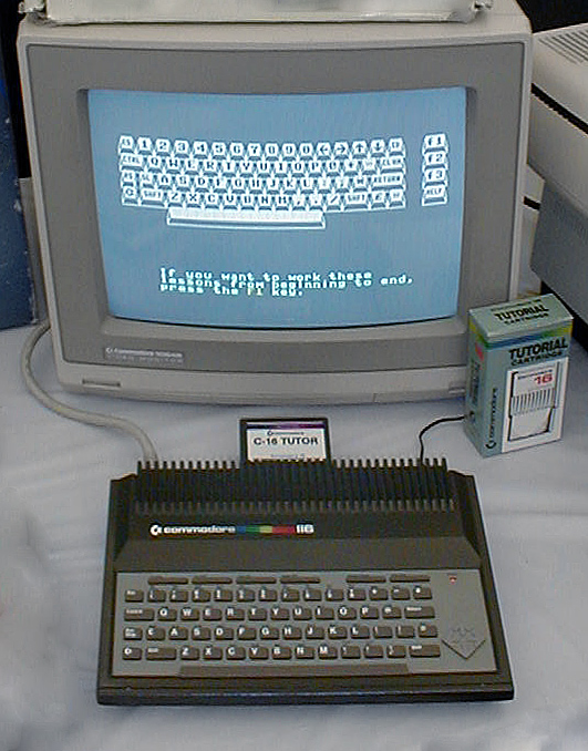 Cropped (packaging removed for reasons of space, other non-related objects photoshoppped out). Meant for use in Wikipedia articles where space is at a premium.